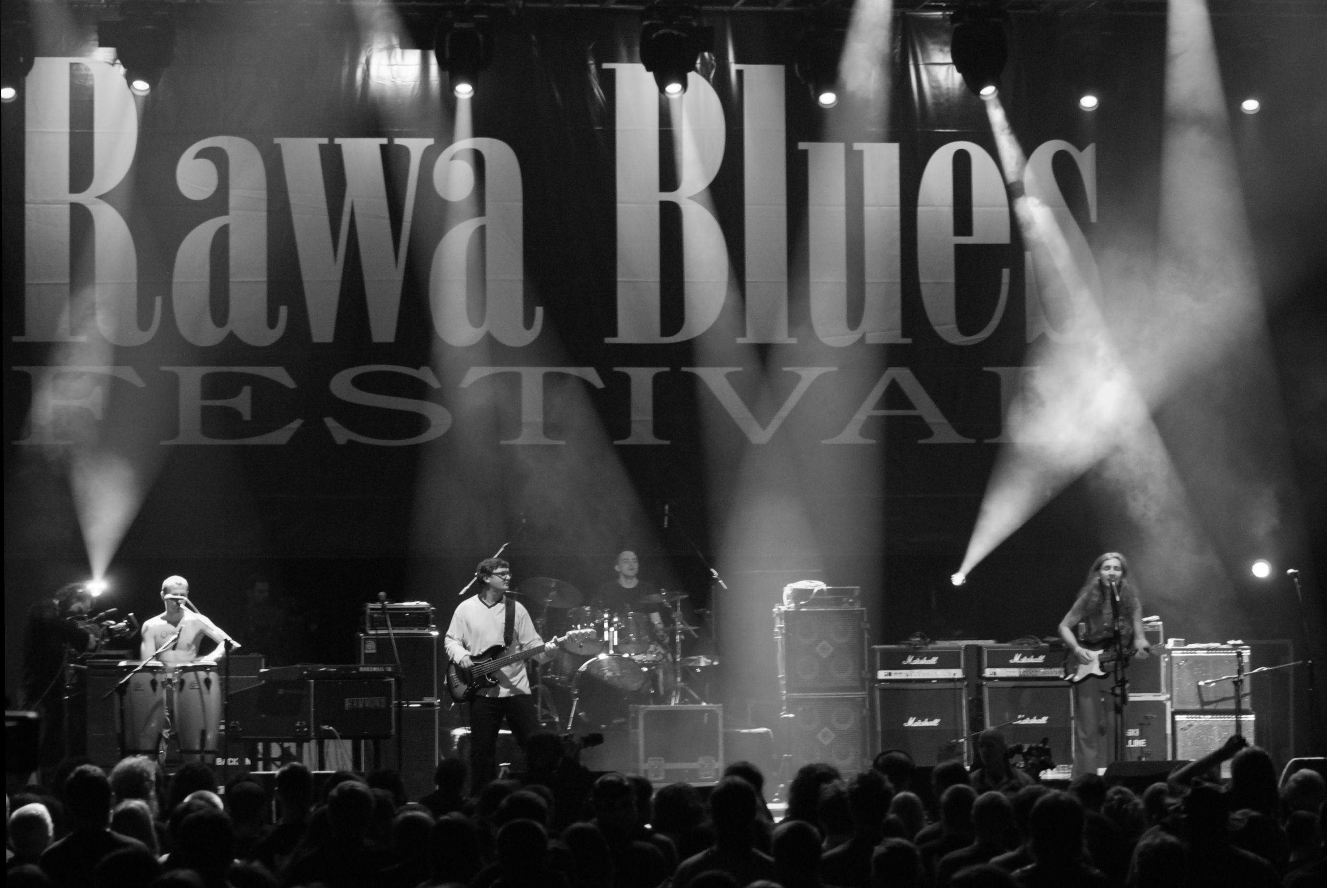 Wojciech Klich during 27. edycji Rawy Blues Festival